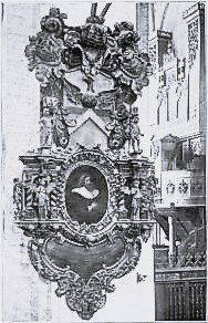 Epitaph for Gottschalk von Wickede in St. Marien, Lübeck, destroyed 1942